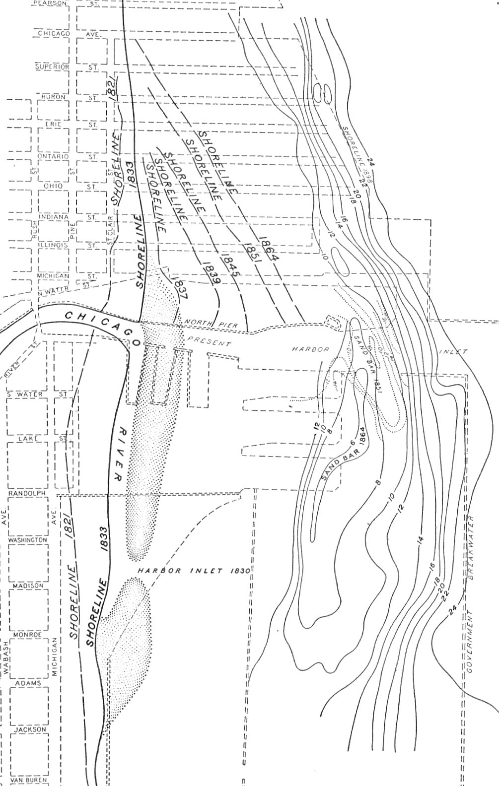 Map of the lake front at Chicago showing the position of the shoreline in 1902 and at intervals from 1821 to 1864.